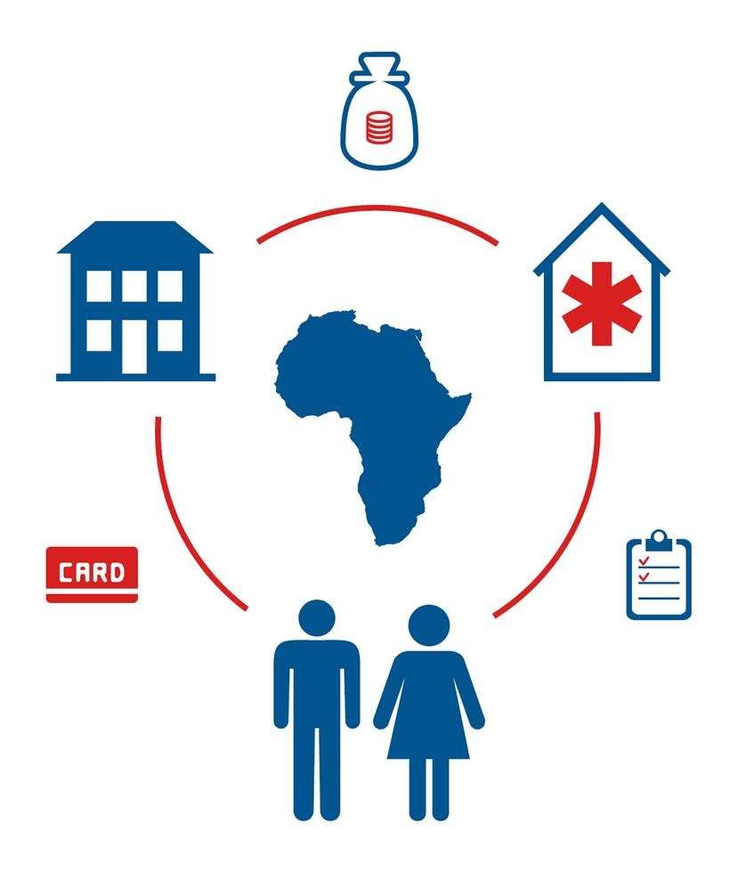 PharmAccess Group Logo